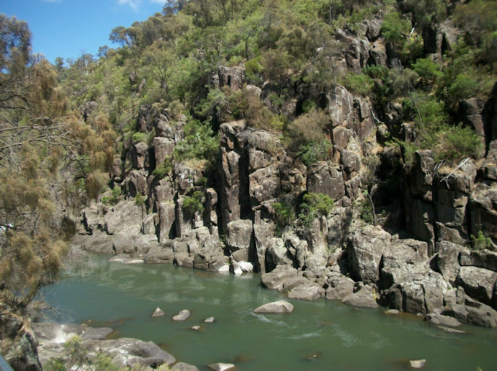 Photo of Cataract Gorge, Tasmania.